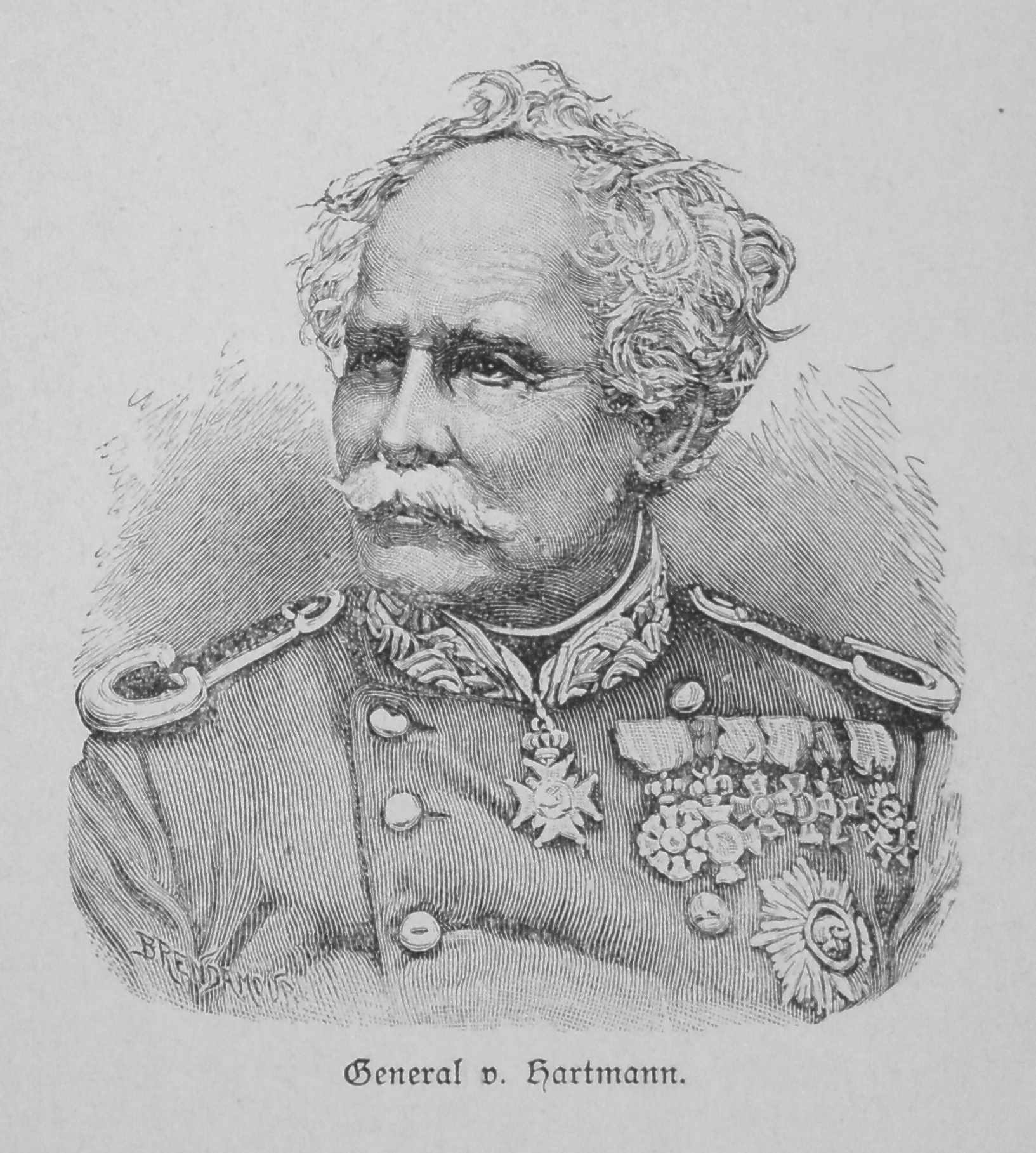 general von Hartmann